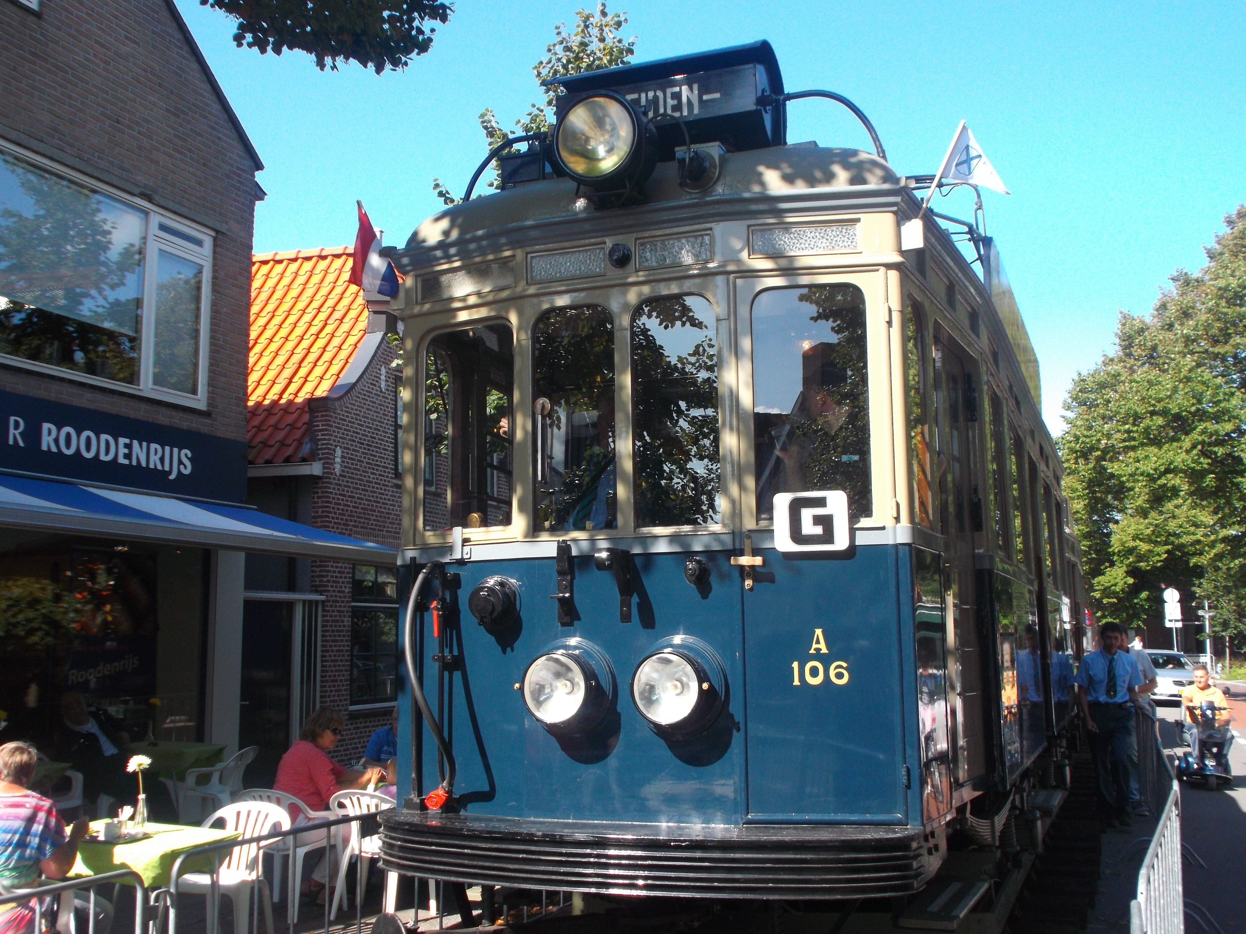 Blue tram, temporary reinstated at the Rijnstraat in Katwijk, where once they were in regular service.